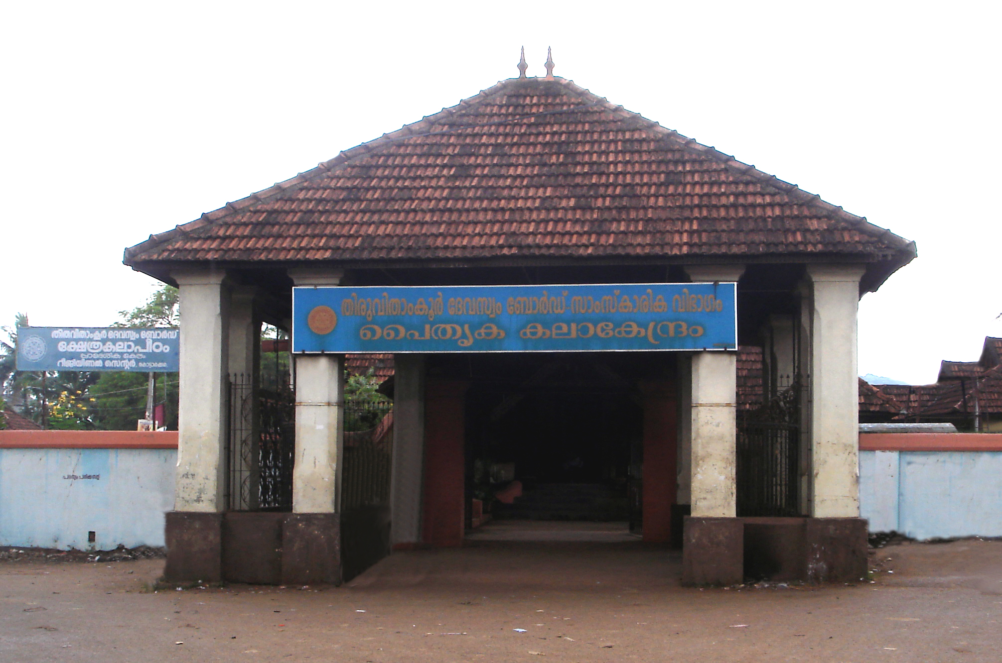 Author: Naveen Sankar Source: Own work